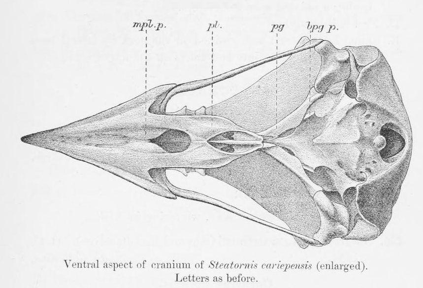 Skull of an oilbird